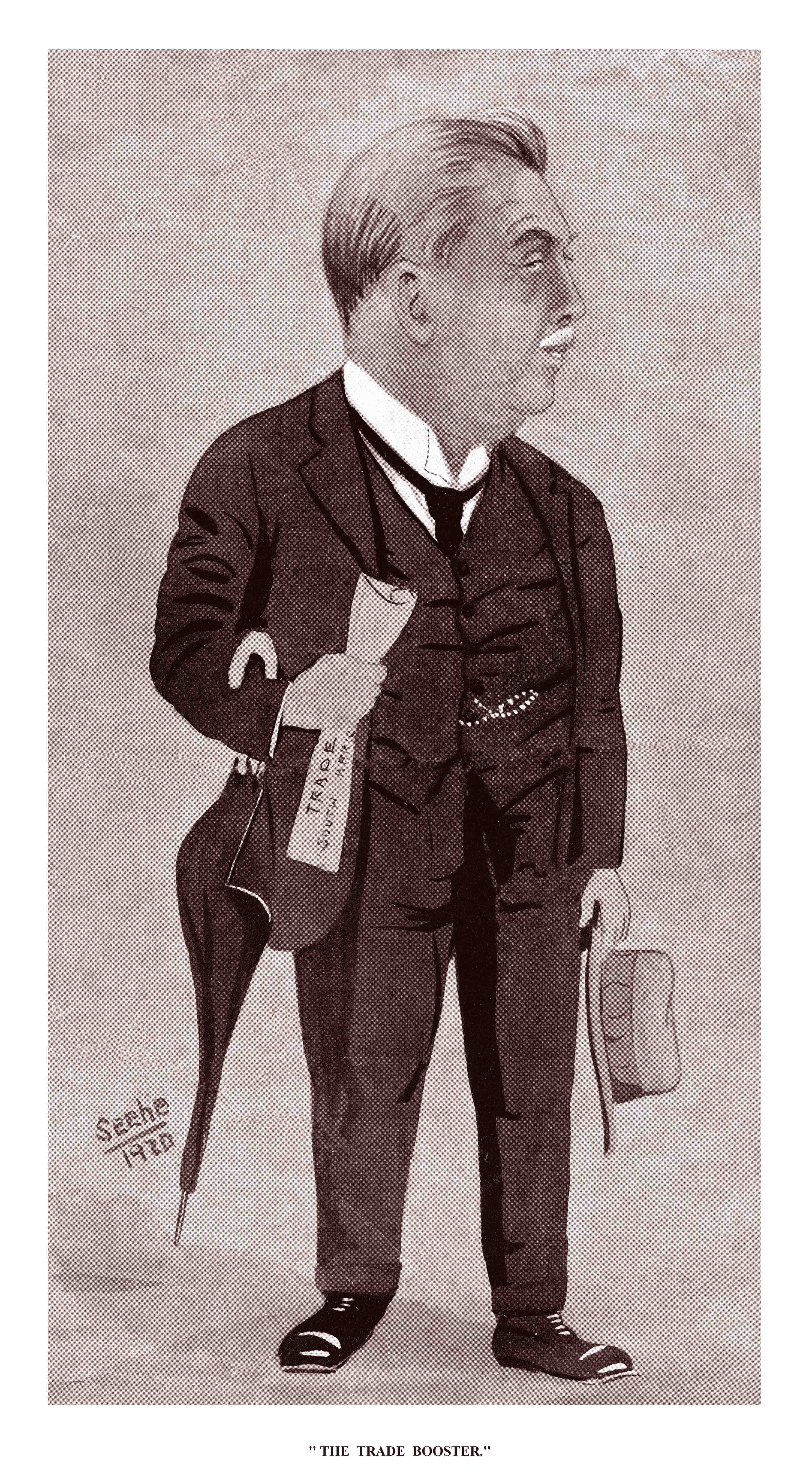 "The Trade Booster": Caricature of Arthur Canham, South African trade commissioner